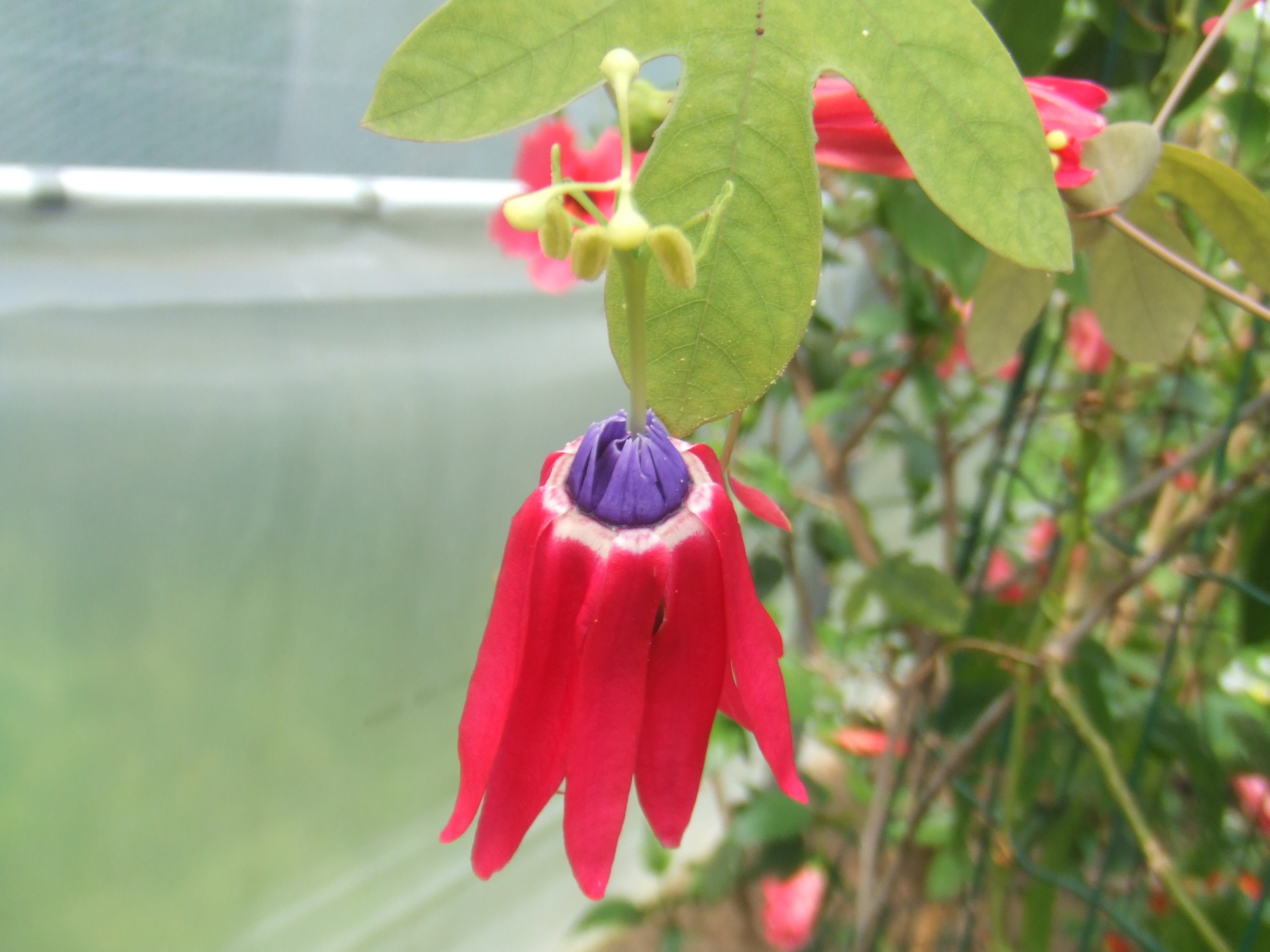 Passiflora edmundoi, picture taken at the Passiflorahoeve in Harskamp, The Netherlands